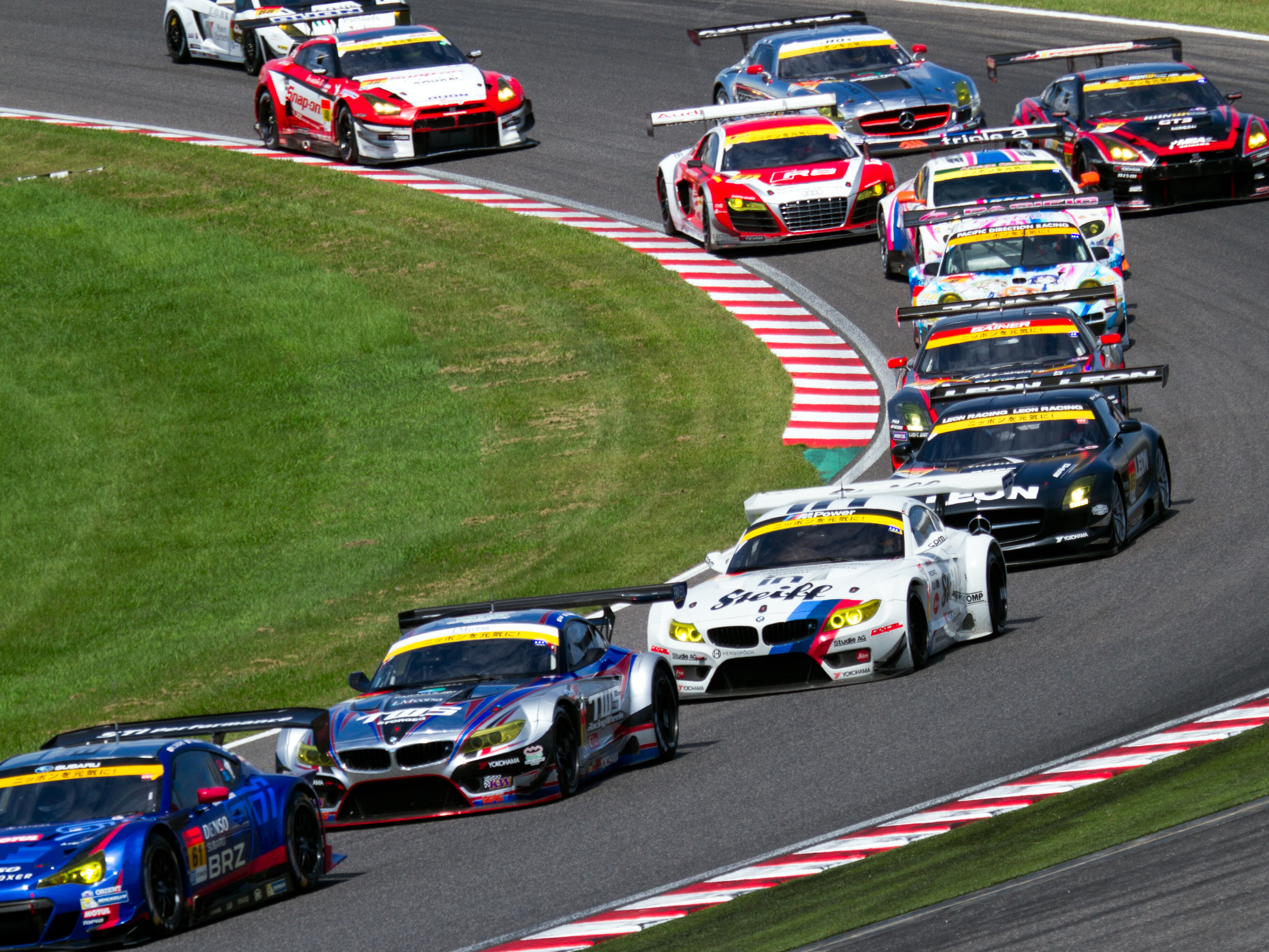 Super GT 2014 Rd.6 Suzuka 1000km: opening lap (GT300)